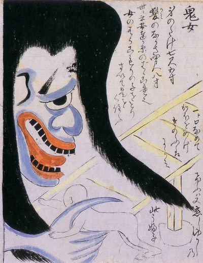 Kijo (鬼女, the japanese ogress) from the Tosa Obake Zōshi (土佐お化け草紙)